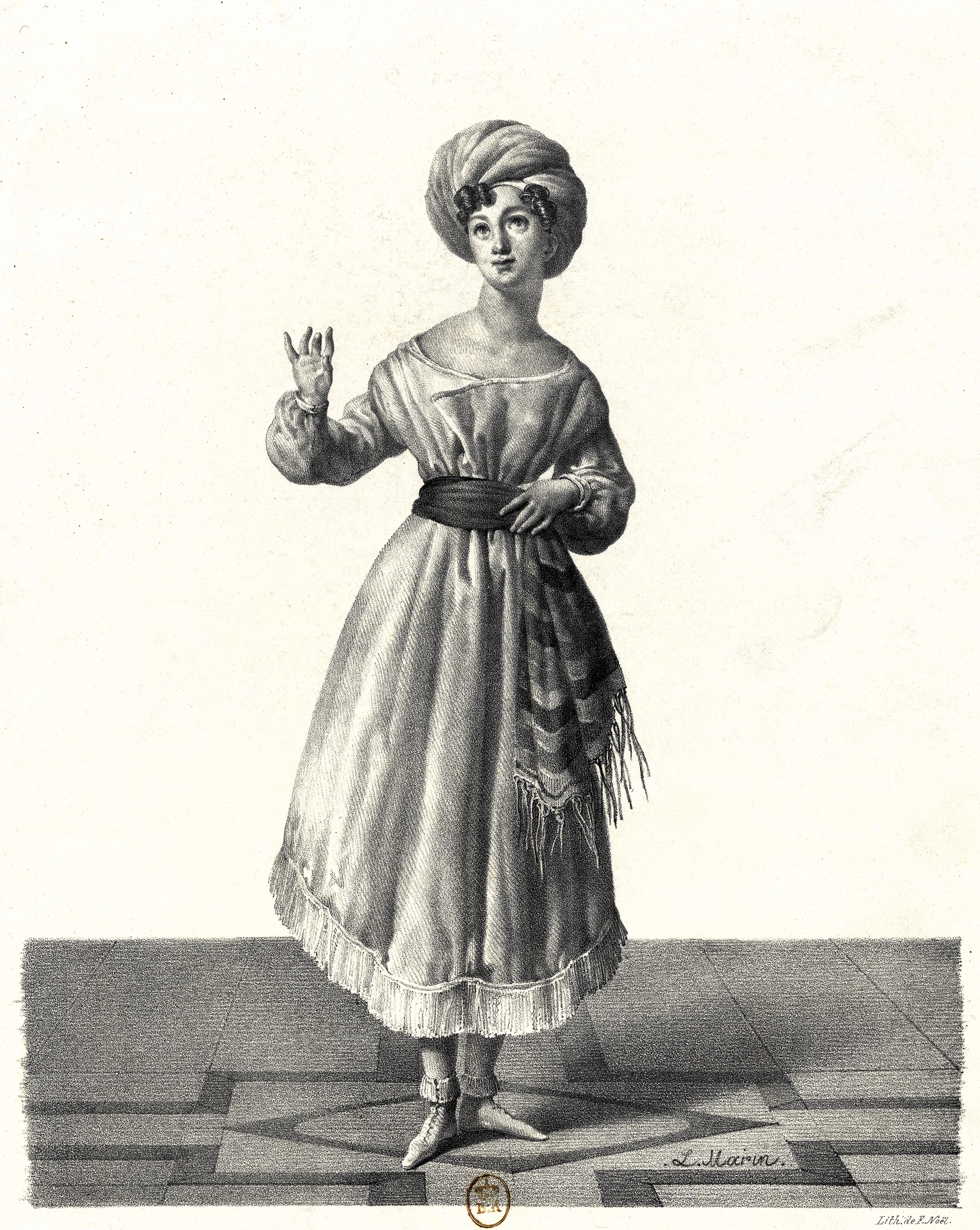 Engraving of Mademoiselle Anaïs (1802–1871), French actress by J. M. Fugere in the role of Misël in Les Macchabées.